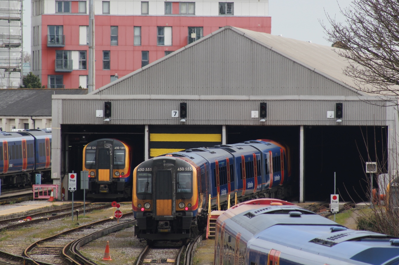 South Western Railway class 450 electric units at Fratton Traincare Depot. 450555 is on road 6 outside the shed while 450120 is inside on road 8 and 450012 is in the siding in the foreground.